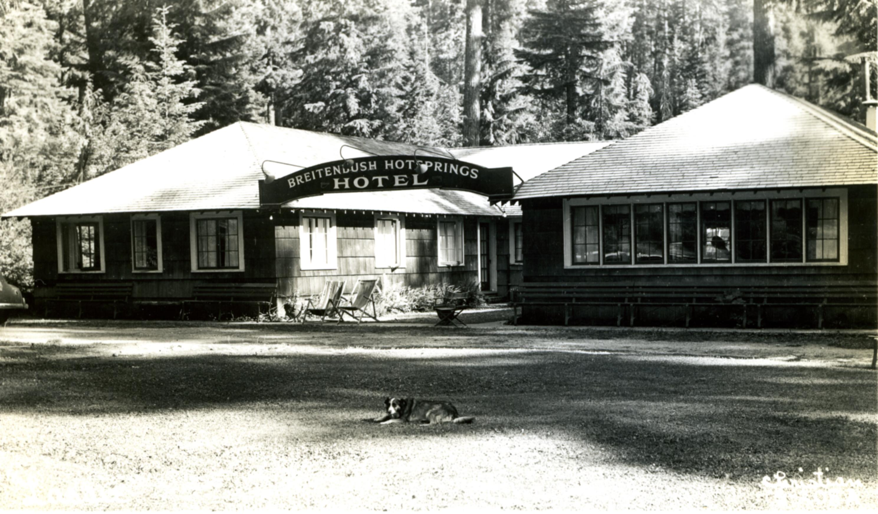 Original Collection: Gerald W. Williams Collection, 1855-2007 Item Number: WilliamsG: SVbreitenbushhotel You can find this image by searching for the item number by clicking here. Want more? You can find more digital resources online. We're happy for you to share this digital image within the spirit of The Commons; however, certain restrictions on high quality reproductions of the original physical version may apply. To read more about what “no known restrictions” means, please visit the Special Collections & Archives website, or contact staff at the OSU Special Collections & Archives Research Center for details.